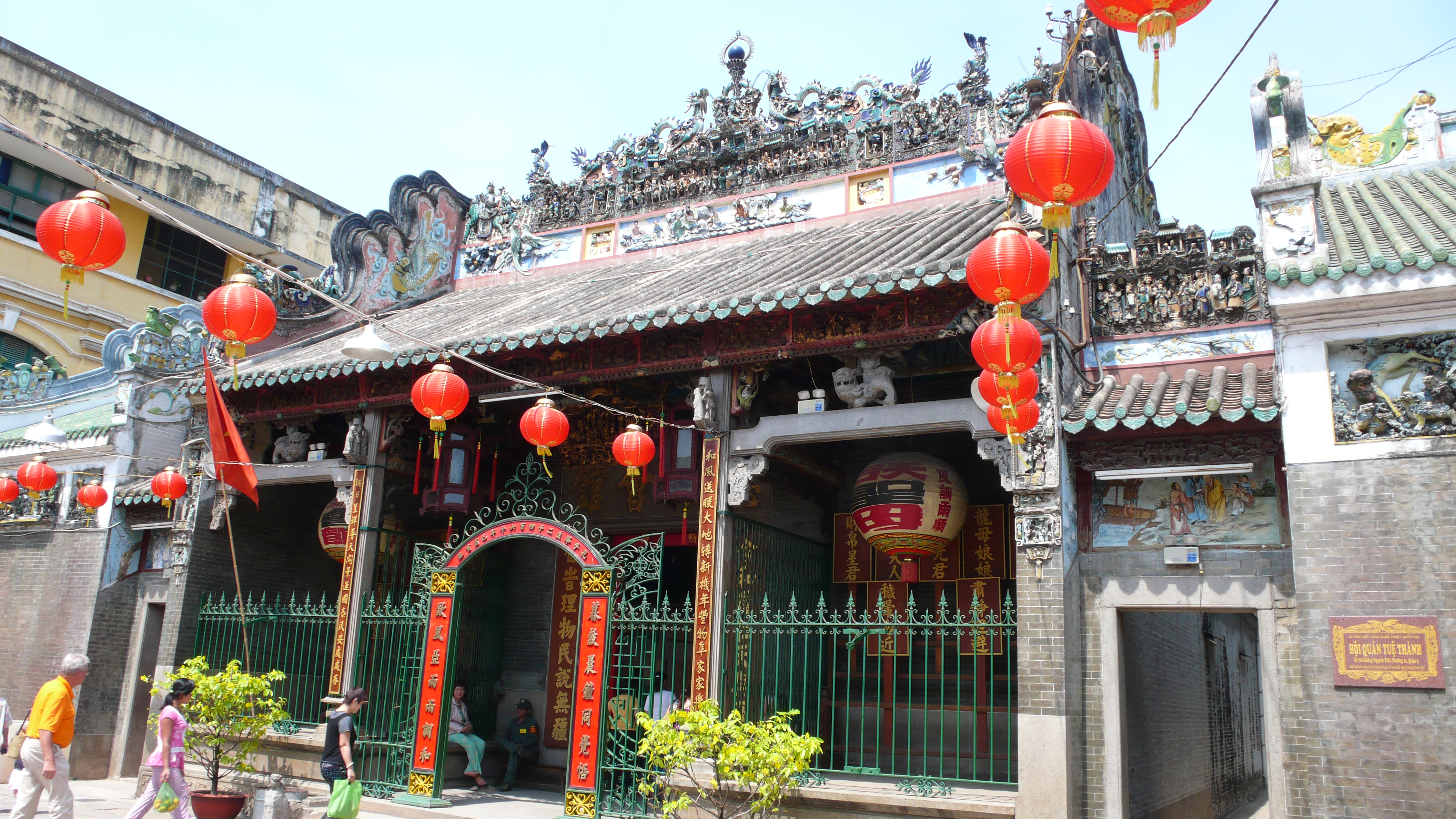 This is a Chinese Buddhist Temple in China town in Saigon. It seems way more decorated than those you see in Shanghai and reminded me quite a lot of those in Taipei.